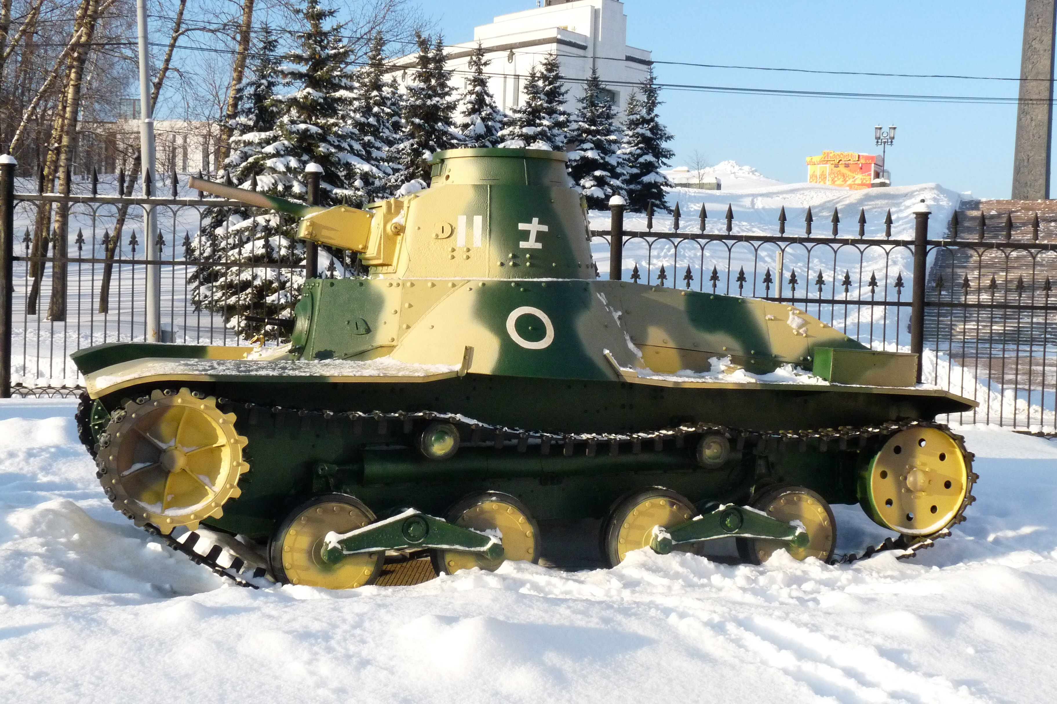 Victory Park in Dorogomilovo, Moscow.